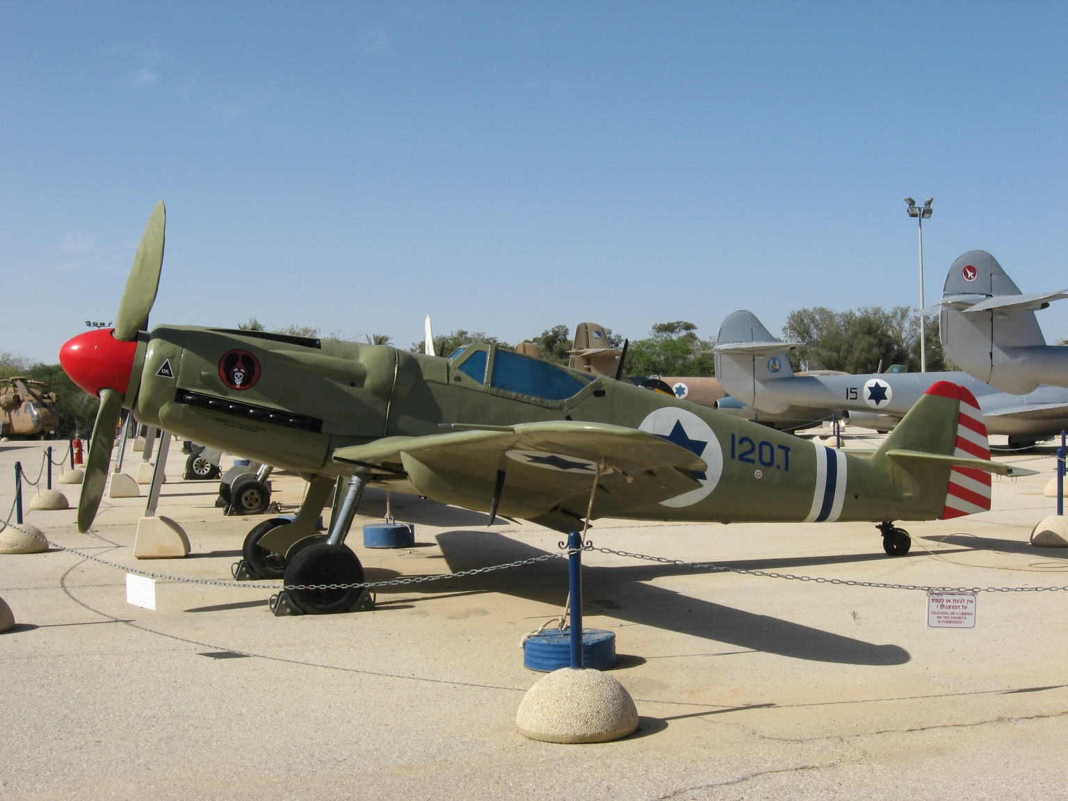 Israeli Air Force 101 Squadron Avia S.199 D.120 at the Israeli Air Force Museum in Hatzerim